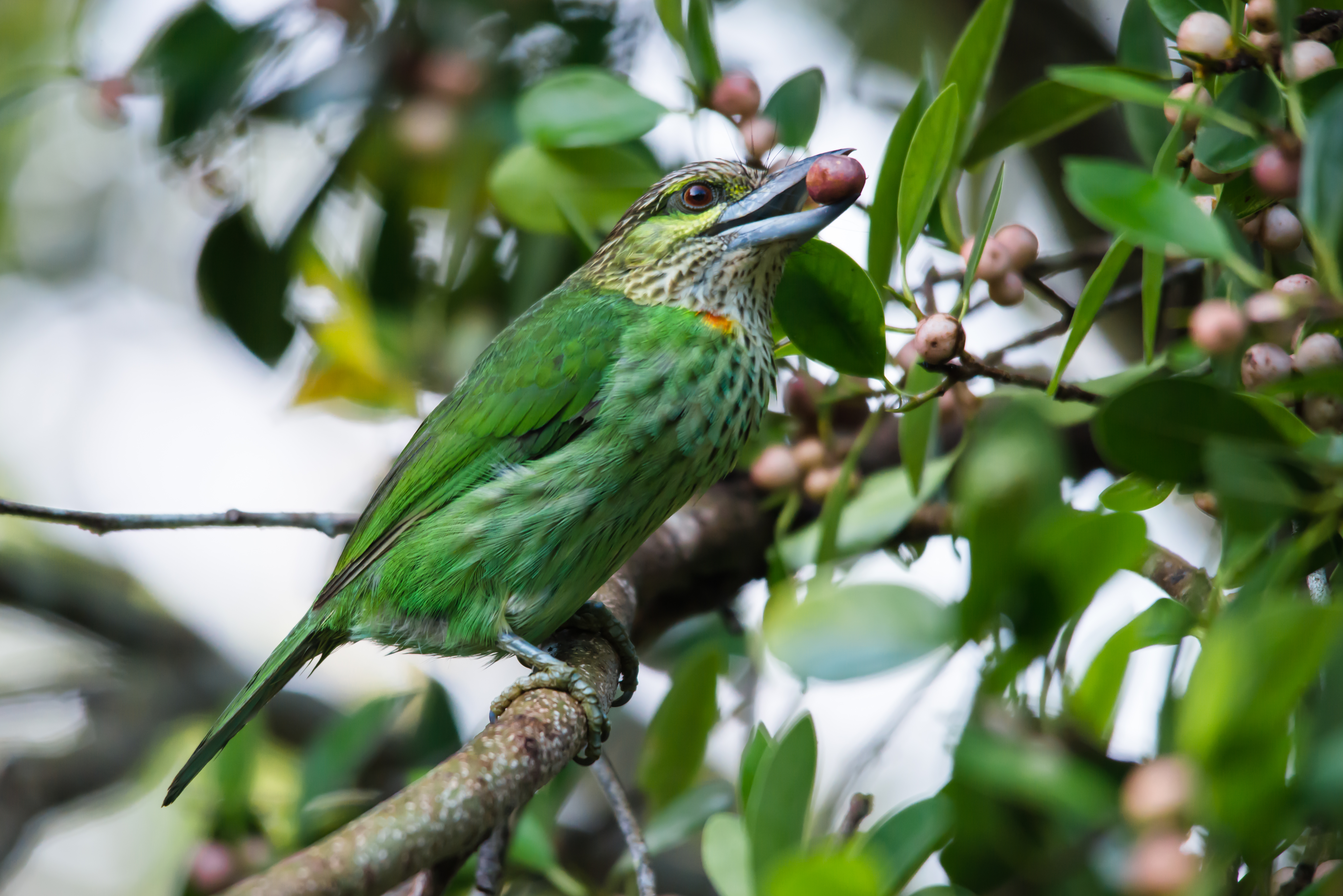 A Green-eared Barbet at Pha Kluaymai Camp Site / Khao Yai National Park in Thailand.